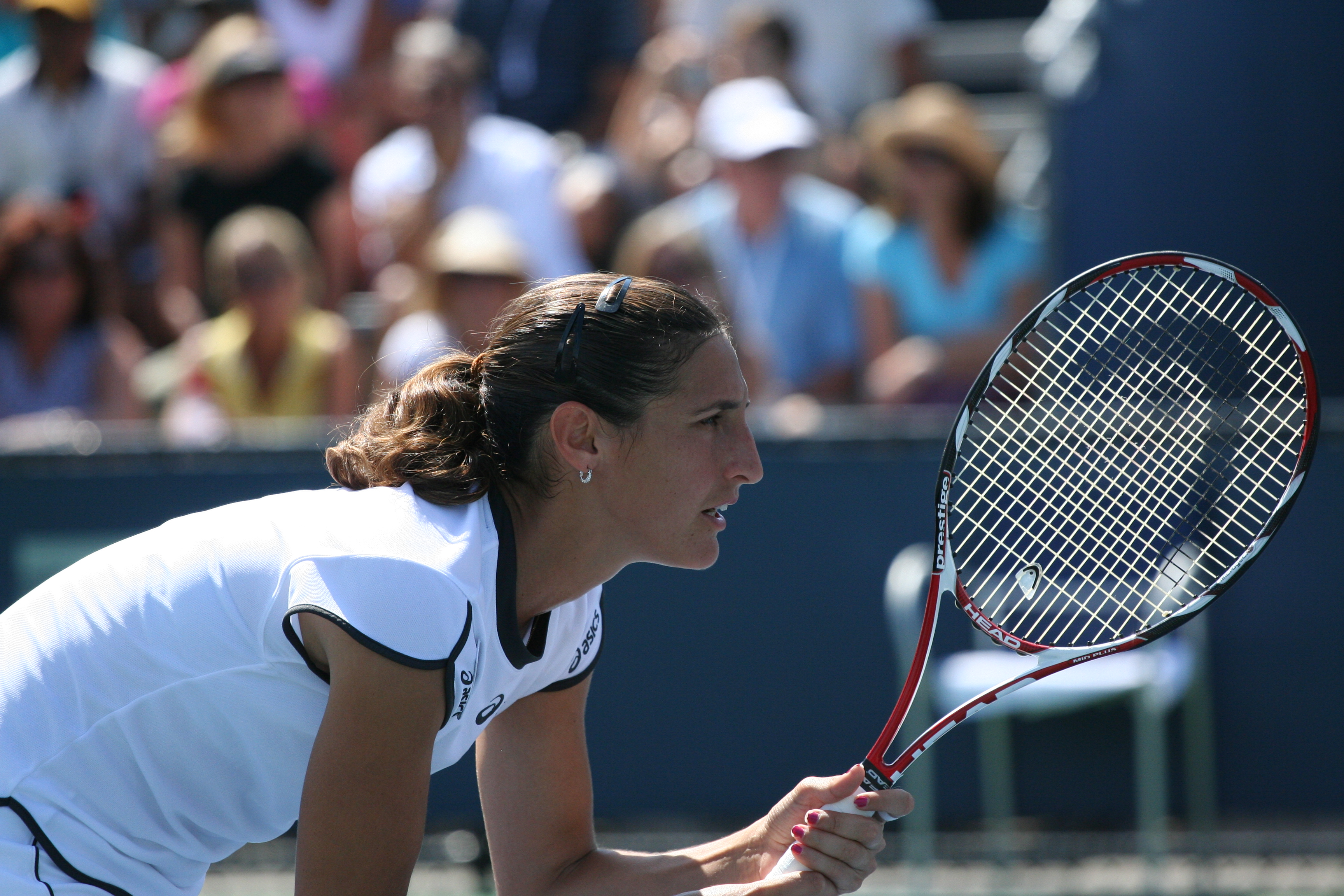 U.S. Open Friday, Sept. 4, 2009